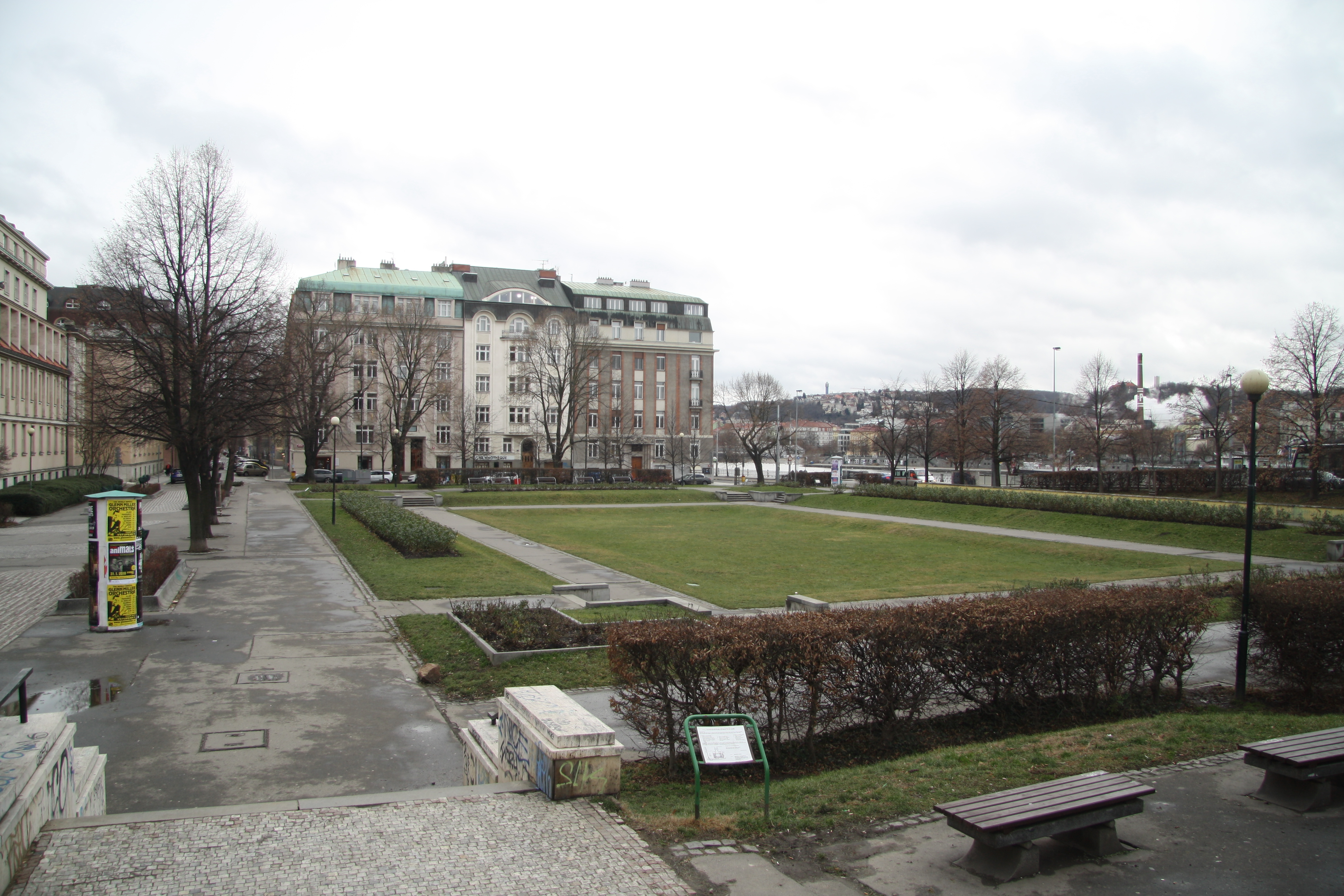 South view of Zítkovy sady street in Nové Město, Prague.